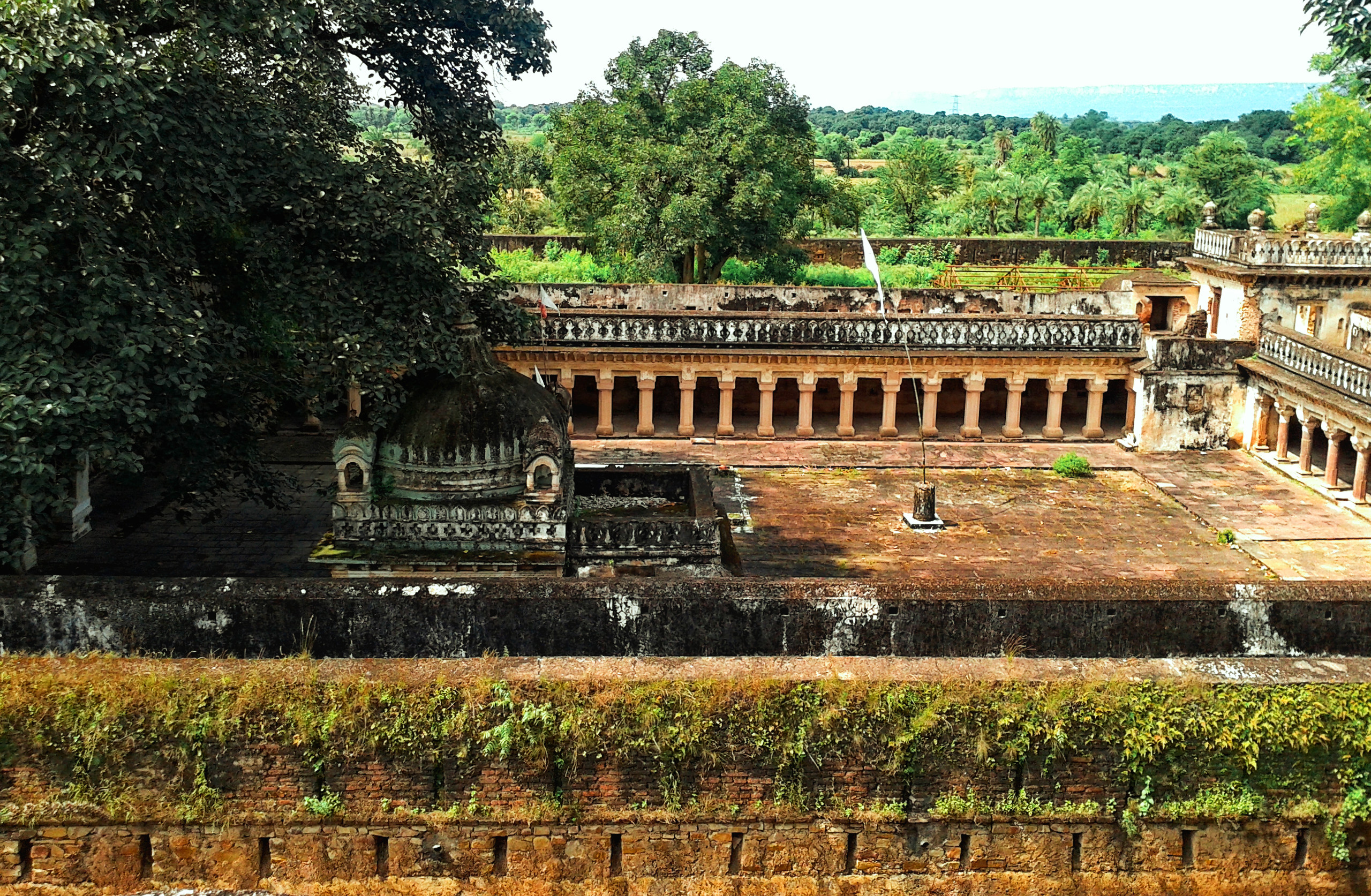 Vijayaraghavgadh Fort - Samadhi Area